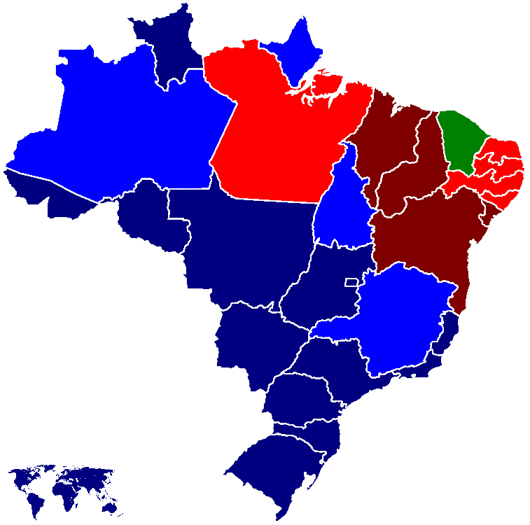 Map of Brazil showing winners of the 2018 presidential election in each Federative Unit. Federative Units that elected Jair Bolsonaro with over 50% of valid votes Federative Units that elected Jair Bolsonaro with less than 50% of valid votes Federative Units that elected Fernando Haddad with over 50% of valid votes Federative Units that elected Fernando Haddad with less than 50% of valid votes Federative Units that elected Ciro Gomes with less than 50% of valid votes